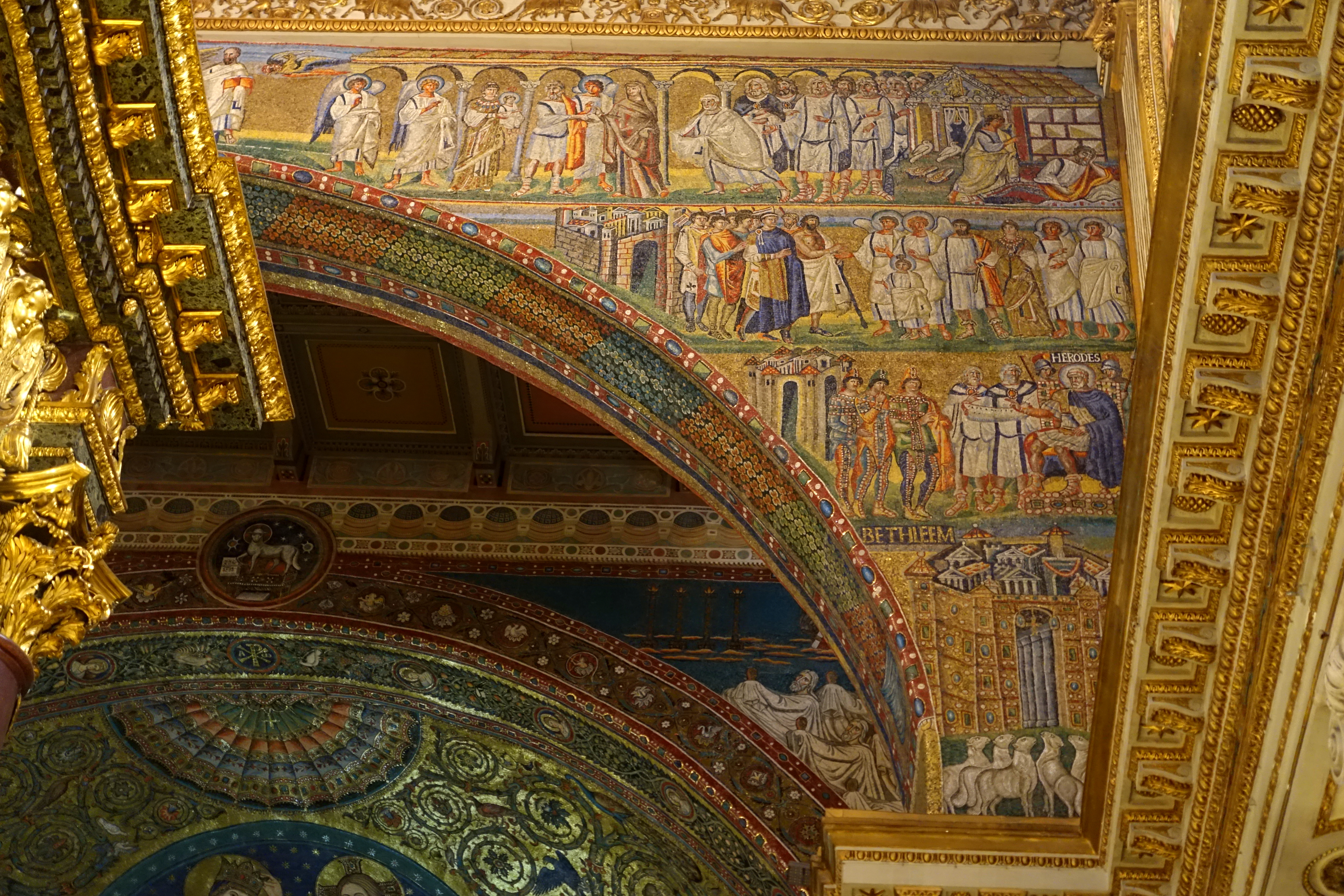 Apse mosaics - Santa Maria Maggiore - Rome, Italy